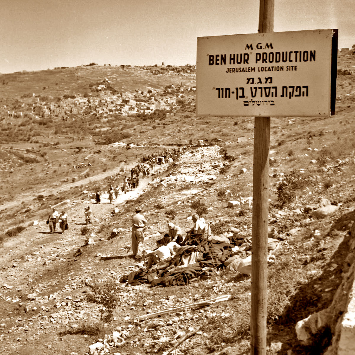 Ben Hur MGM Production - Jerusalem Location site, near Lifta